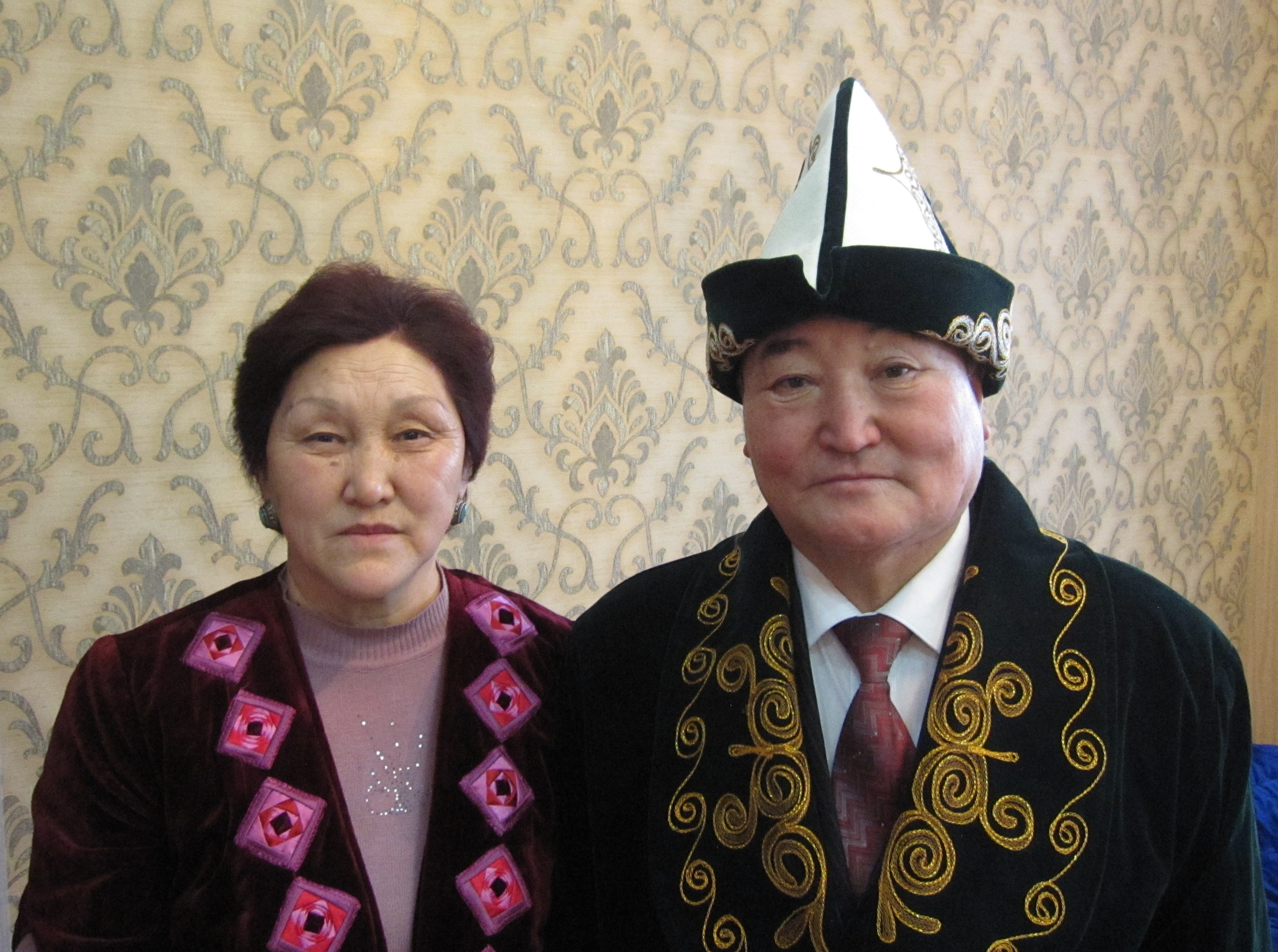 A Kyrgyz historian, Prof. Janybek Jakypbekov together with his wife, a poetess Kerez Zarlykova. Bishkek, Kyrgyzstan. 23.2.2012. Photo by T. Chorotegin.